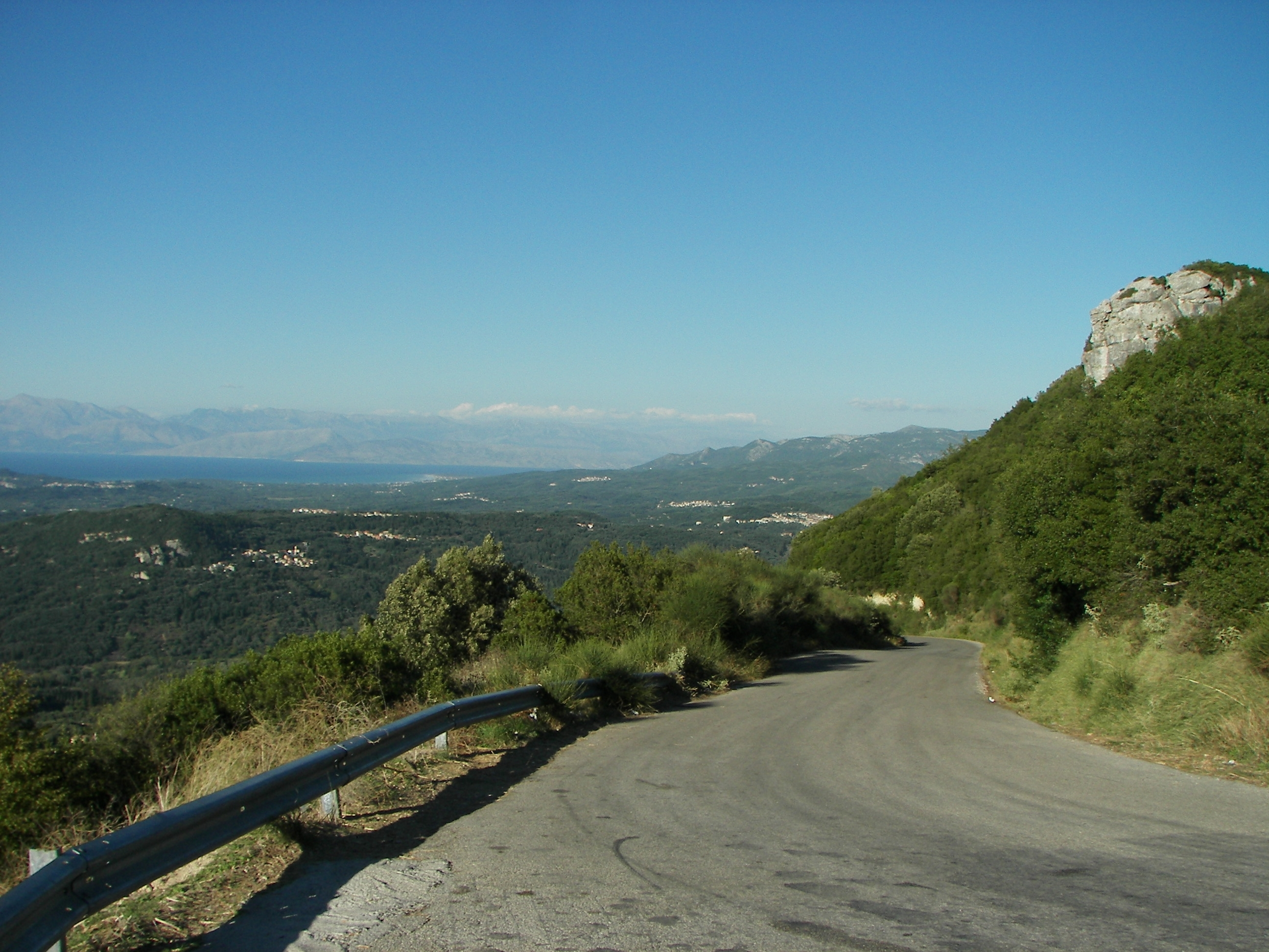 Filename